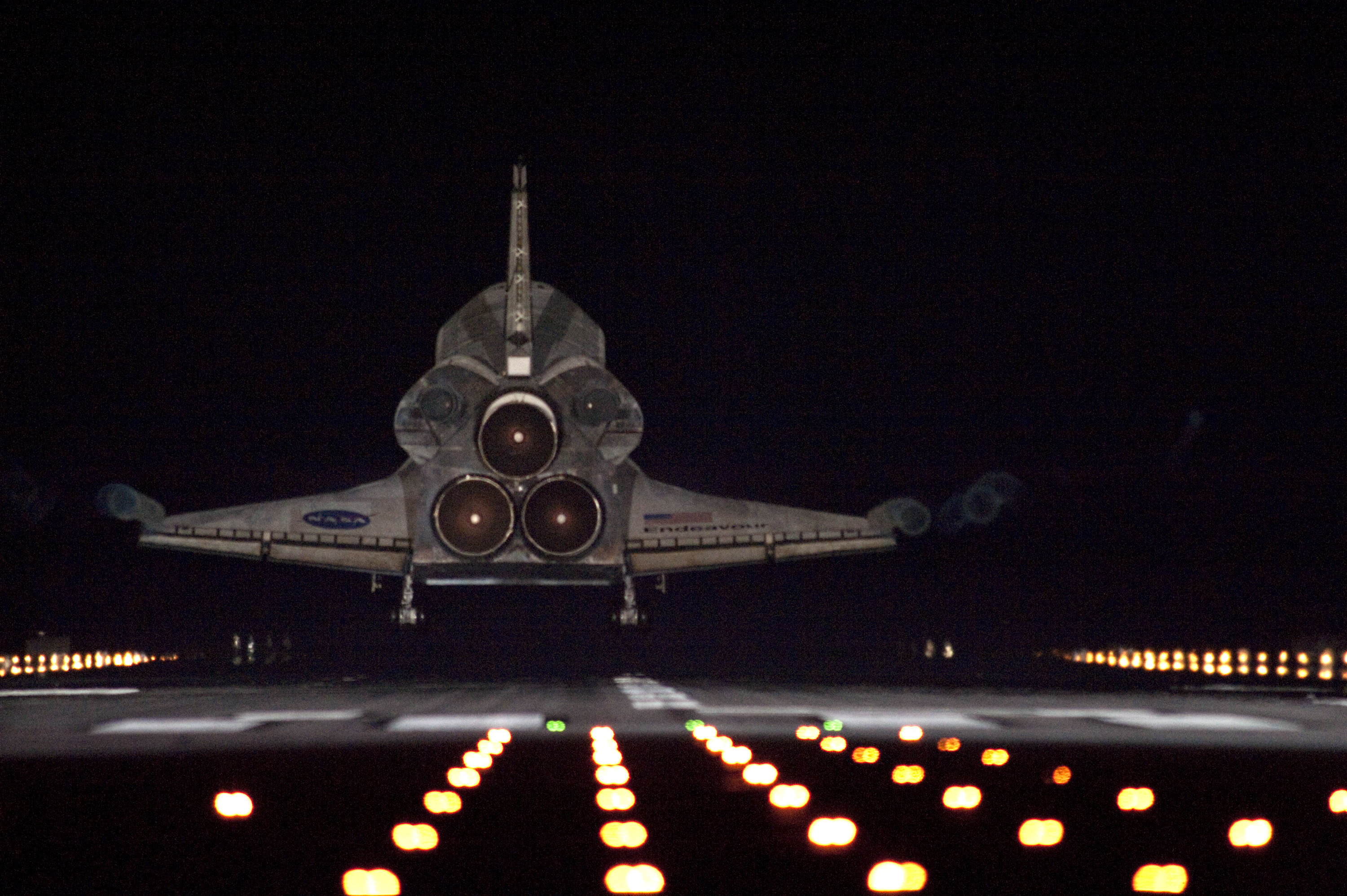 CAPE CANAVERAL, Fla. – Xenon lights help lead space shuttle Endeavour home to NASA's Kennedy Space Center in Florida. Endeavour landed for the final time on the Shuttle Landing Facility's Runway 15, marking the 24th night landing of NASA's Space Shuttle Program. Main gear touchdown was at 2:34:51 a.m. EDT, followed by nose gear touchdown at 2:35:04 a.m., and wheelstop at 2:35:36 a.m. On board are STS-134 Commander Mark Kelly, Pilot Greg H. Johnson, and Mission Specialists Mike Fincke, Drew Feustel, Greg Chamitoff and the European Space Agency's Roberto Vittori. STS-134 delivered the Alpha Magnetic Spectrometer-2 (AMS) and the Express Logistics Carrier-3 (ELC-3) to the International Space Station. AMS will help researchers understand the origin of the universe and search for evidence of dark matter, strange matter and antimatter from the station. ELC-3 carried spare parts that will sustain station operations once the shuttles are retired from service. STS-134 was the 25th and final flight for Endeavour, which has spent 299 days in space, orbited Earth 4,671 times and traveled 122,883,151 miles.